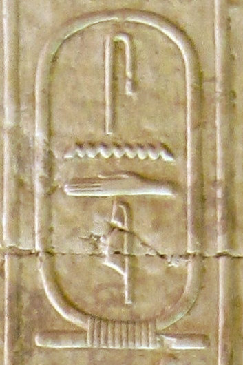 Cartouche 13, Abydos King List. Temple of Seti I, Abydos, Egypt